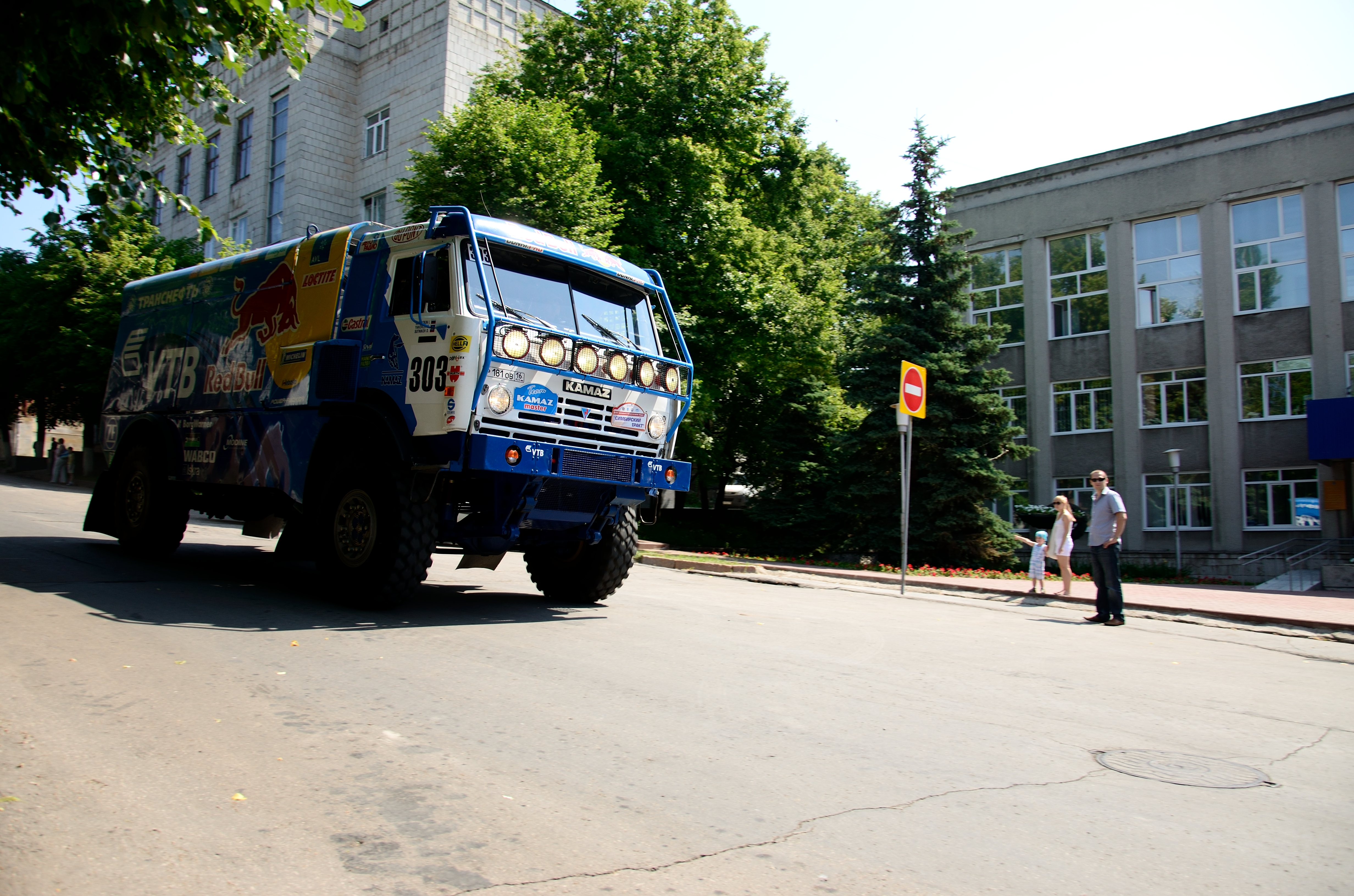 KAMAZ 4326 (4x4) on «Simbirsk tract» (Russian: Симбирский тракт) rally raid (Team Kamaz-master, Dmitry Sotnikov crew) Ulyanovsk